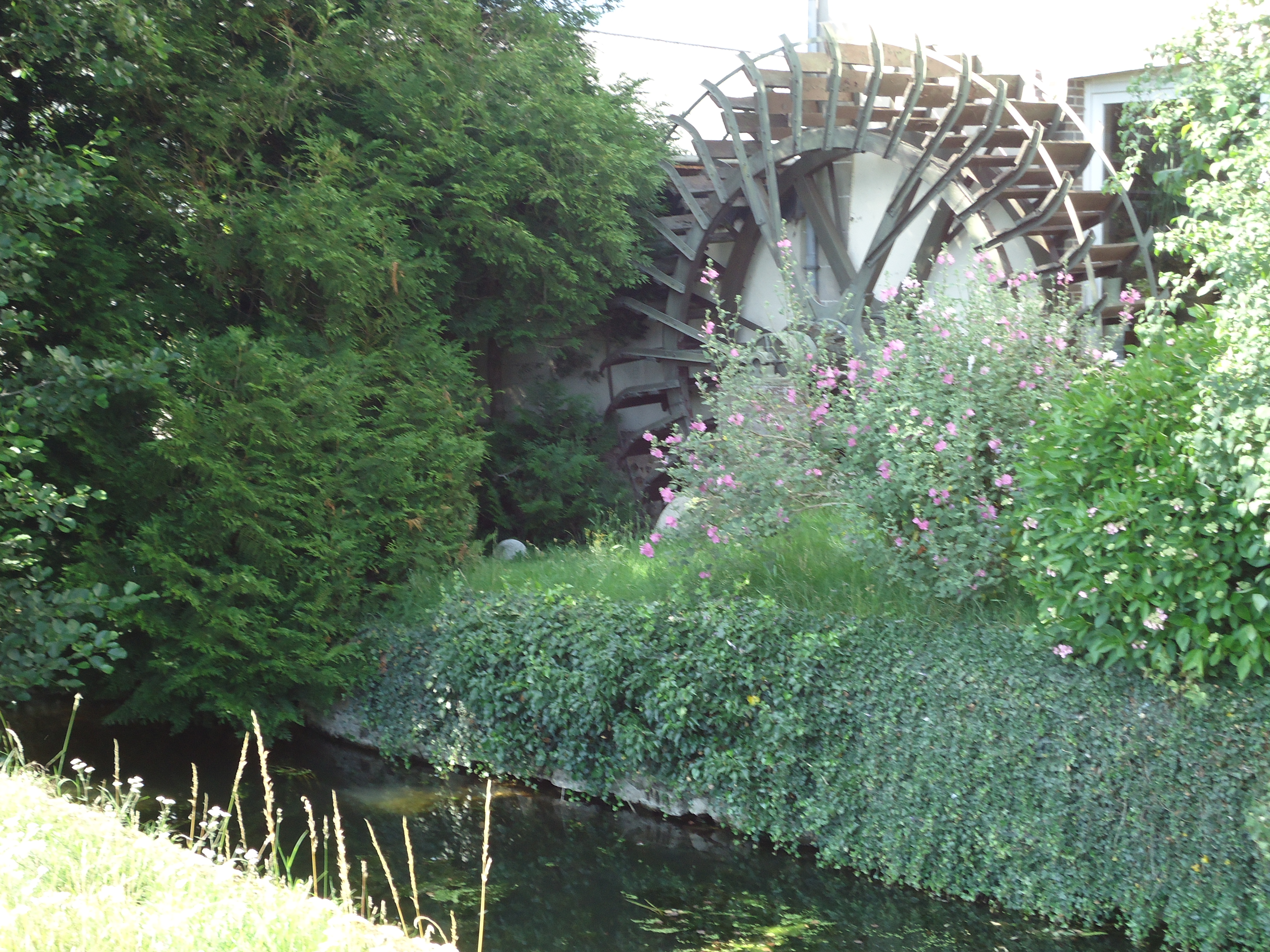 La roue du Moulin Mulot - Sylvains-les-Moulins - Eure (27)